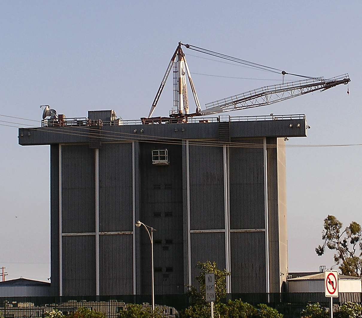 Saturn V rocket assembly building in Seal Beach, California.